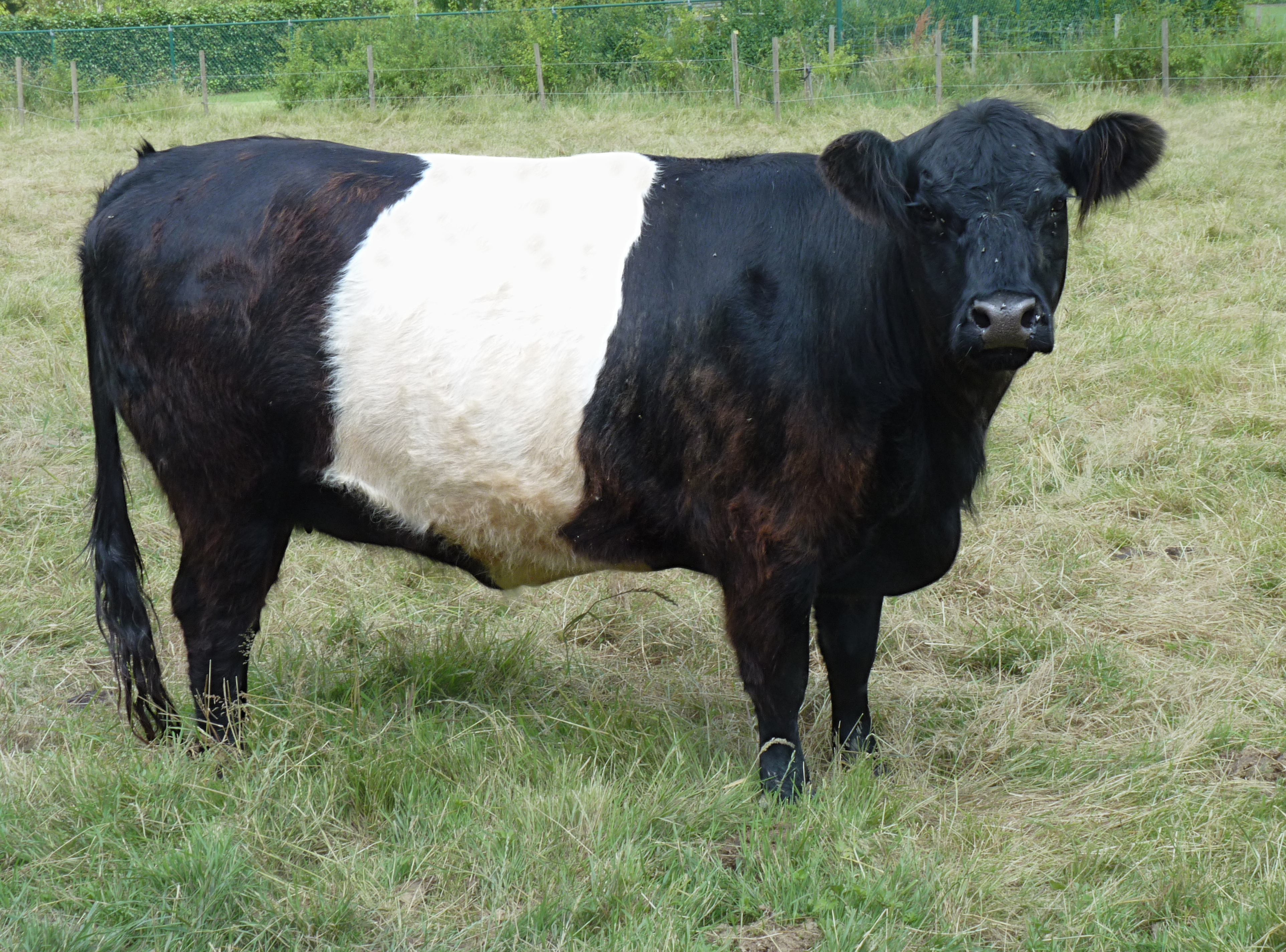 Belted Galloway cow, picture taken in Belgium.